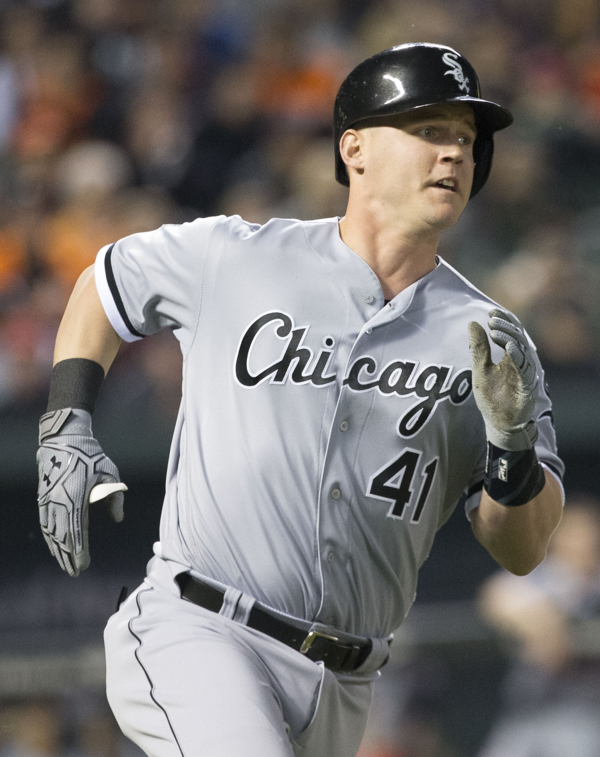 Jerry Sands